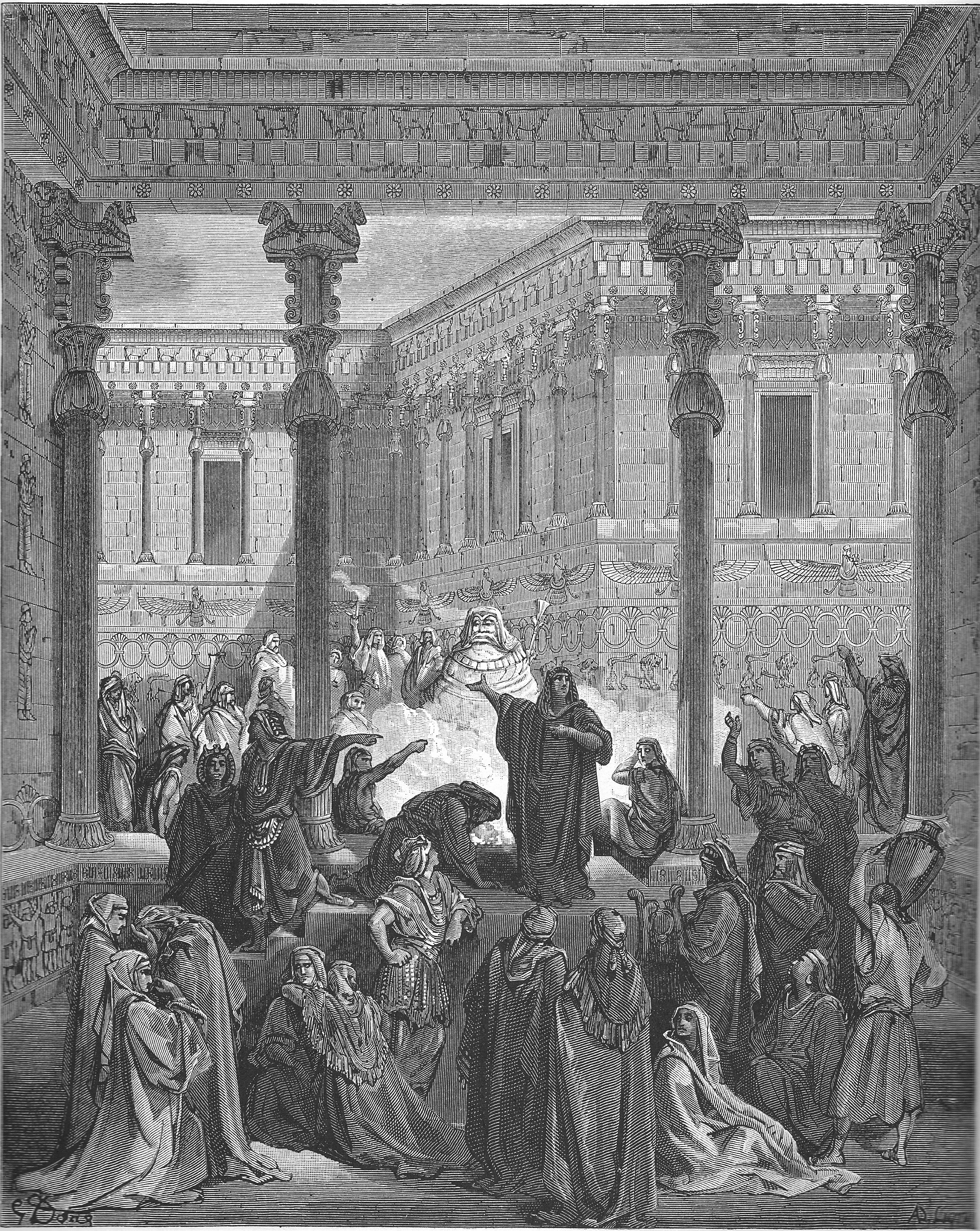 Daniel Confounds the Priests of Bel (Dan. 14:1-27)